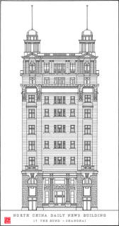 North China Daily News Building Simon Fieldhouse